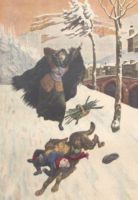 Illustration from the French illustrated Weekly, Le Petit Journal (25 January 1914), depicting a wolf snatching a child.